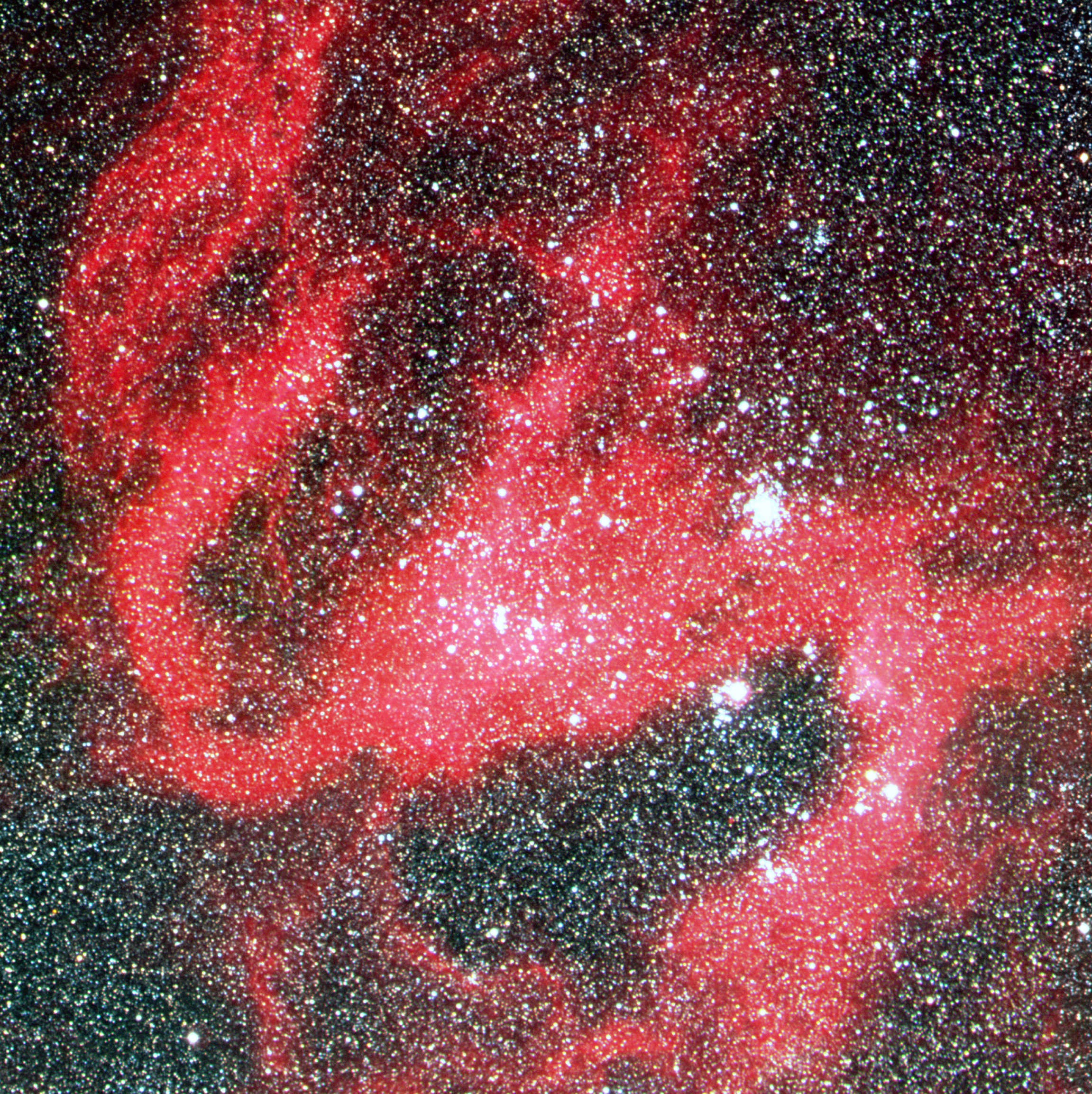 This image shows N119 in detail. N119 is an "H II region" in the LMC. The most remarkable characteristic is its pronounced spiral shape that is reminiscent of a barred spiral galaxy. It is quite large, about 400 x 600 light-years, and it is situated at the northern side of the stellar bar of the Large Magellanic Cloud, near the centre of rotation of the neutral hydrogen in this galaxy. It is this bar that is responsible for the much higher star density in the lower half of the full-field photo.